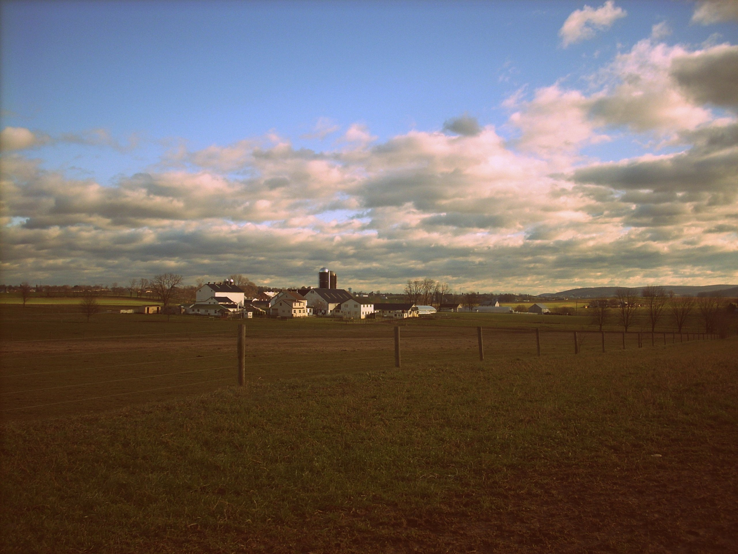 Amish farms in Lancaster County